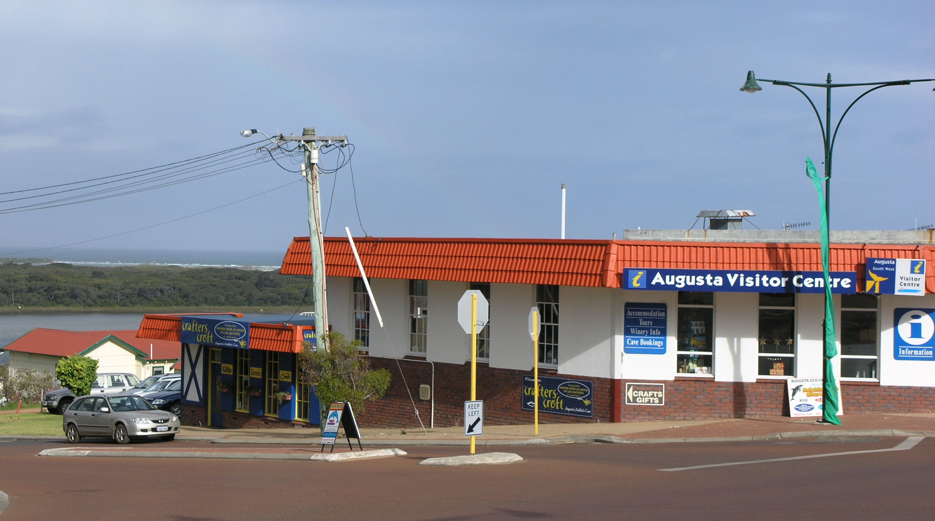 Augusta Western Australia taken by myself.